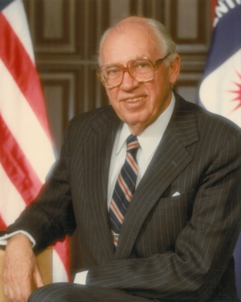 Official Portrait of William J. Casey